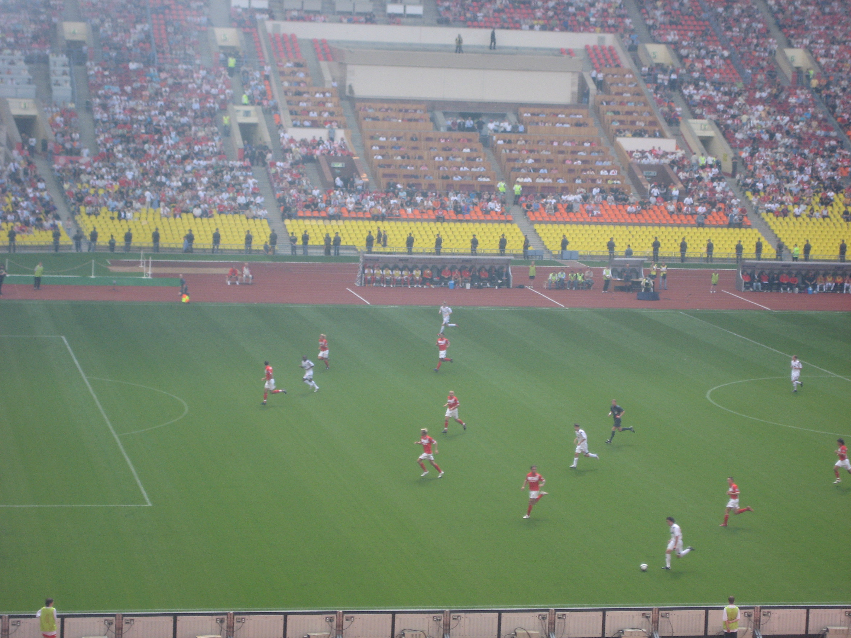 Russian football derby «Spartak» — «CSKA». Moscow. CSKA in attack.